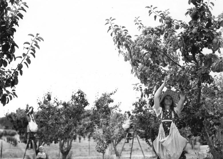 Description: Apple Orchard - Apple pickers at work, Upper Moutere Photographer: Unknown Date: Unknown Archives New Zealand Reference: AAQT 6539 A1146 This photo is from Archives New Zealand's National Publicity Studio's collection. The National Publicity Studio was established in 1945, but its beginnings can be traced back to the establishment in 1924 of a Publicity Office - part of the Department of Internal Affairs. The emphasis of this Publicity Office was on films, photographs and booklets. The purpose of the National Publicity Studio was to provide advice to government departments and state agencies on the provision of photographic, art, and display services and in particular to assist in the production of publicity material aimed at conveying a favourable image of New Zealand.